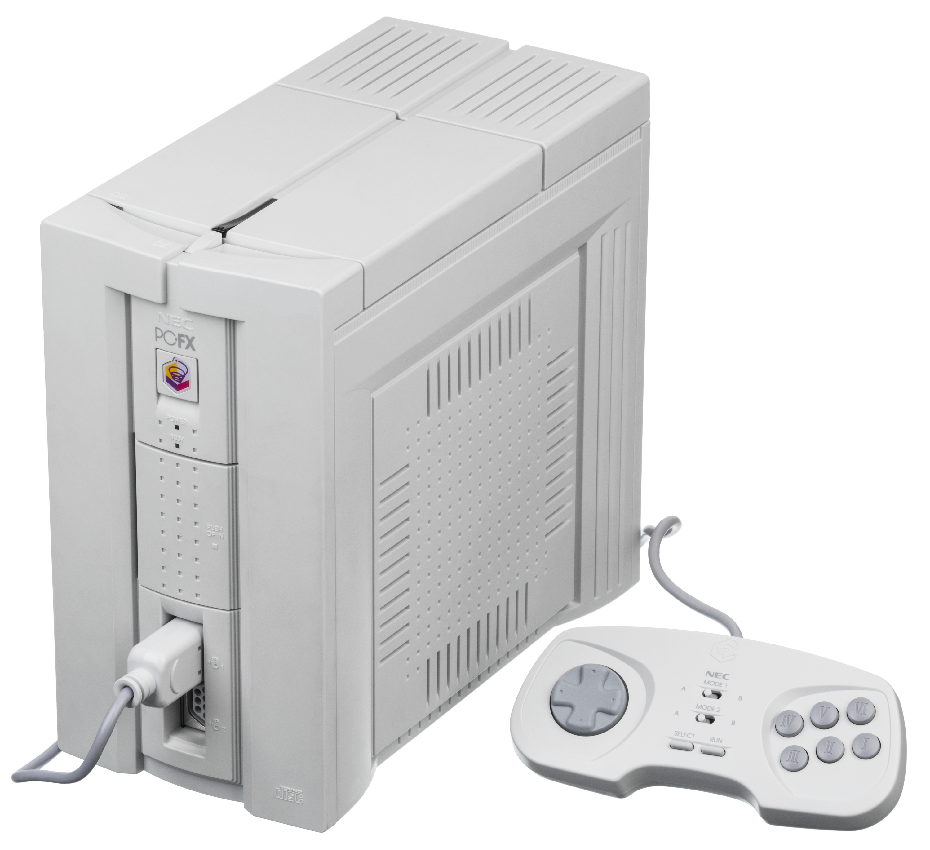 An NEC PC-FX video game console. This was only released in Japan.